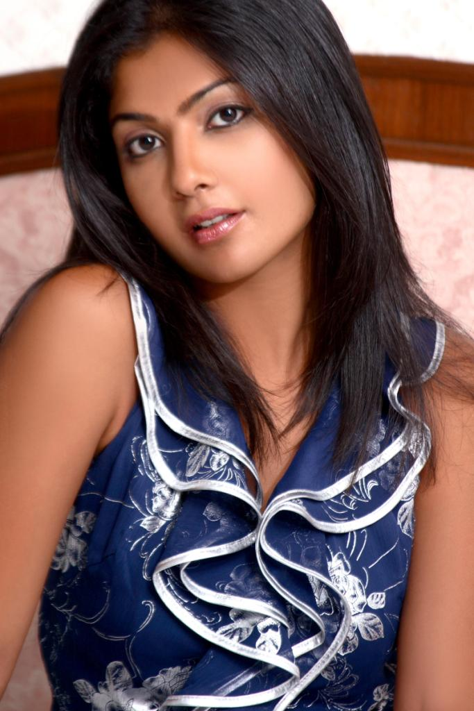 Kamalinee Mukherjee